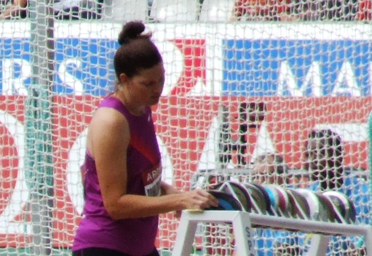 American discus thrower Stephanie Brown Trafton during the 2010 Meeting Areva, the ninth stage of the 2010 Diamond League in Saint-Denis, Paris.